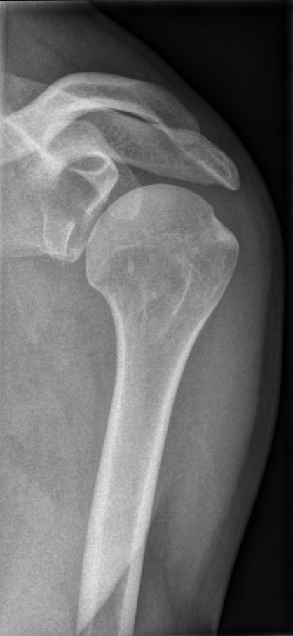 Fracture of the glenoid of the left scapula.